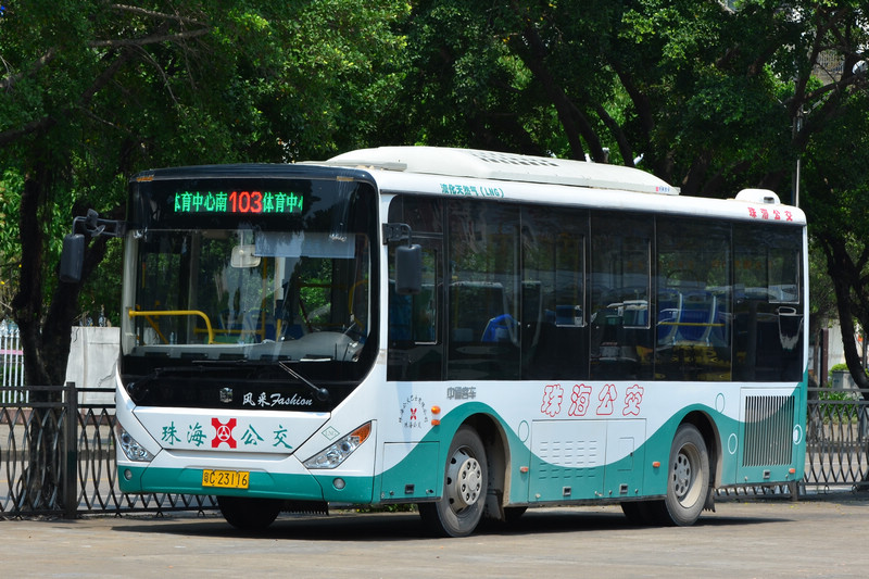 Zhuhai Bus Route 103